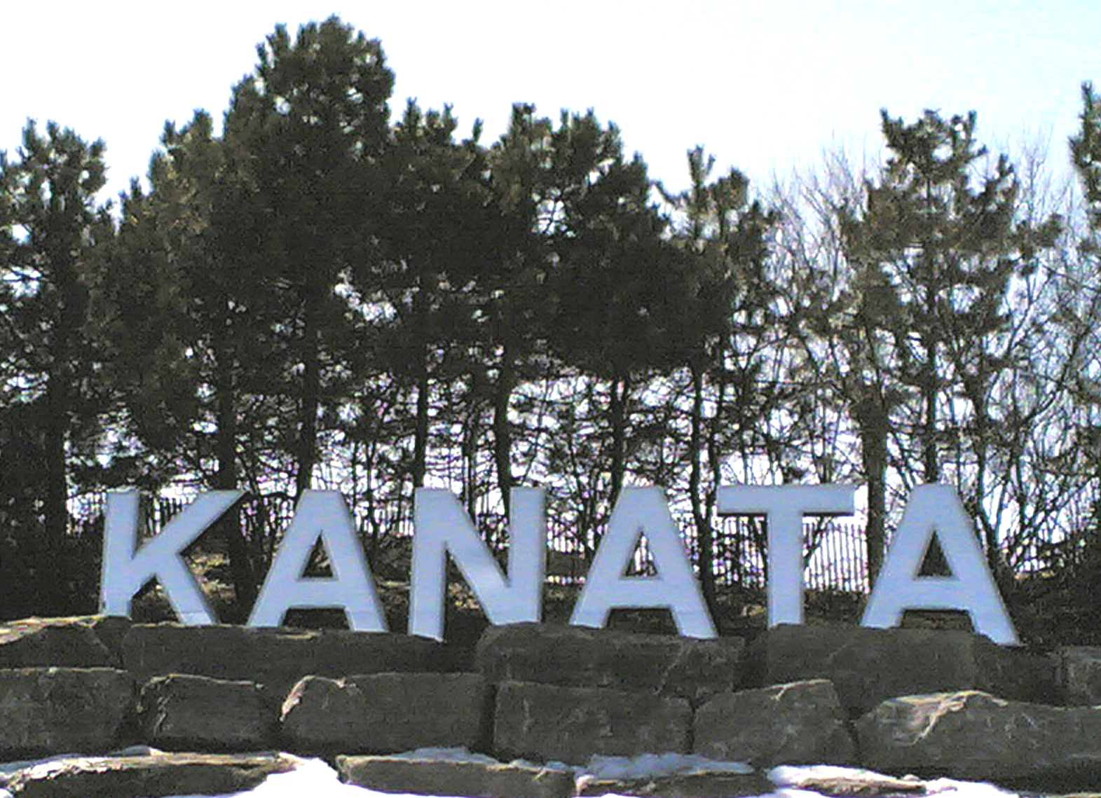 Photograph of the "KANATA" sign at the entry to the suburb of Kanata (Ottawa, Canada) looking westbound. The sign's letters are approximately 3 meters high and are illuminated at night. The sign is placed parallel with Eagleson Road on the east side of the road about 50 meters north of Highway 417 just before it runs under the Eagleson Road overpass.